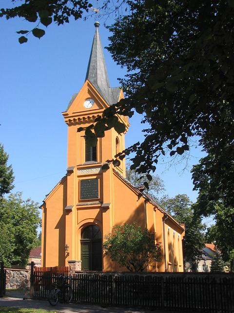 Church in Rangsdorf, Landkreis (rural district) Teltow-Fläming, Brandenburg; in the south of Berlin